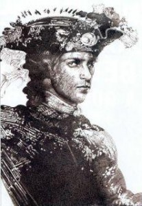 Picture of Joan Baptista Basset. This is an hipothetical idealistic recreation made by the valencian artist Manuel Boix (also known as Manolo), information given by the magazine El Temps at March 10th 2009 page 63.